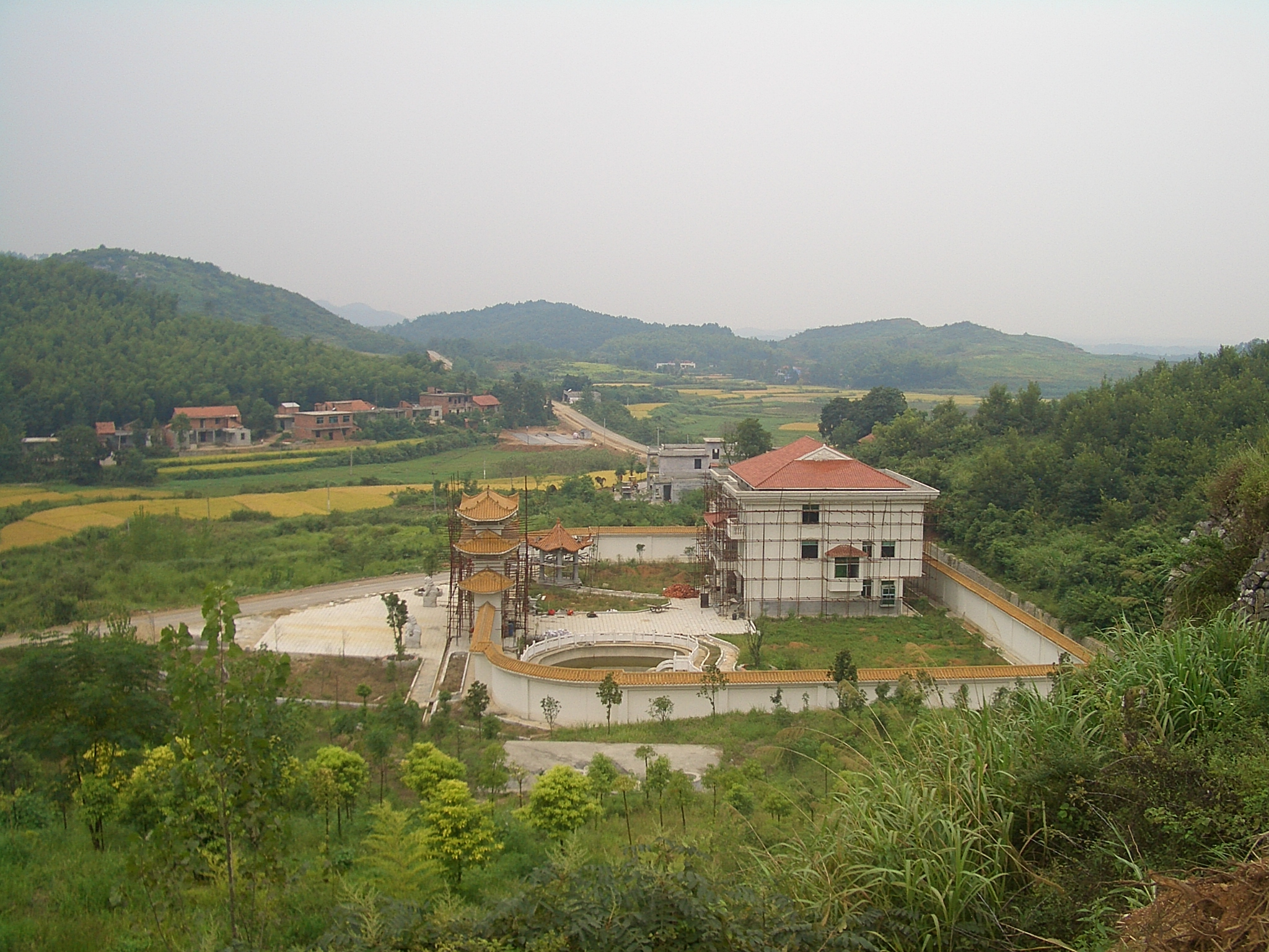 Yet another "ancient temple" complex under construction. Some 10-15 km east of Xianning, on the way to Gaoqiao Zhen, before reaching the Project 131 site. (Maybe Longquan Si, shown on Google maps?)